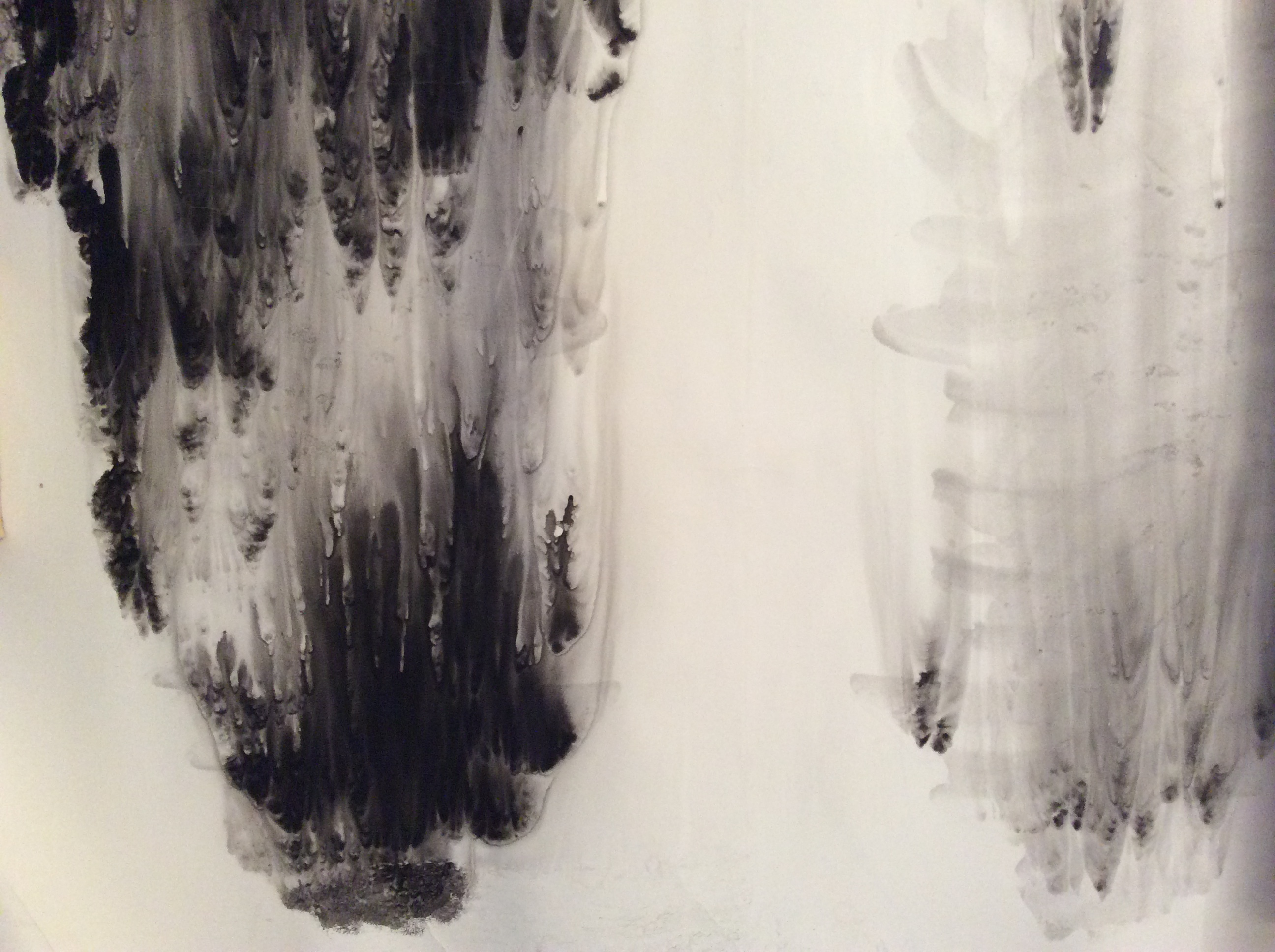 Stevens Vaughns ritualistic paintings, interpretation of classical Chinese 山水 paintings.